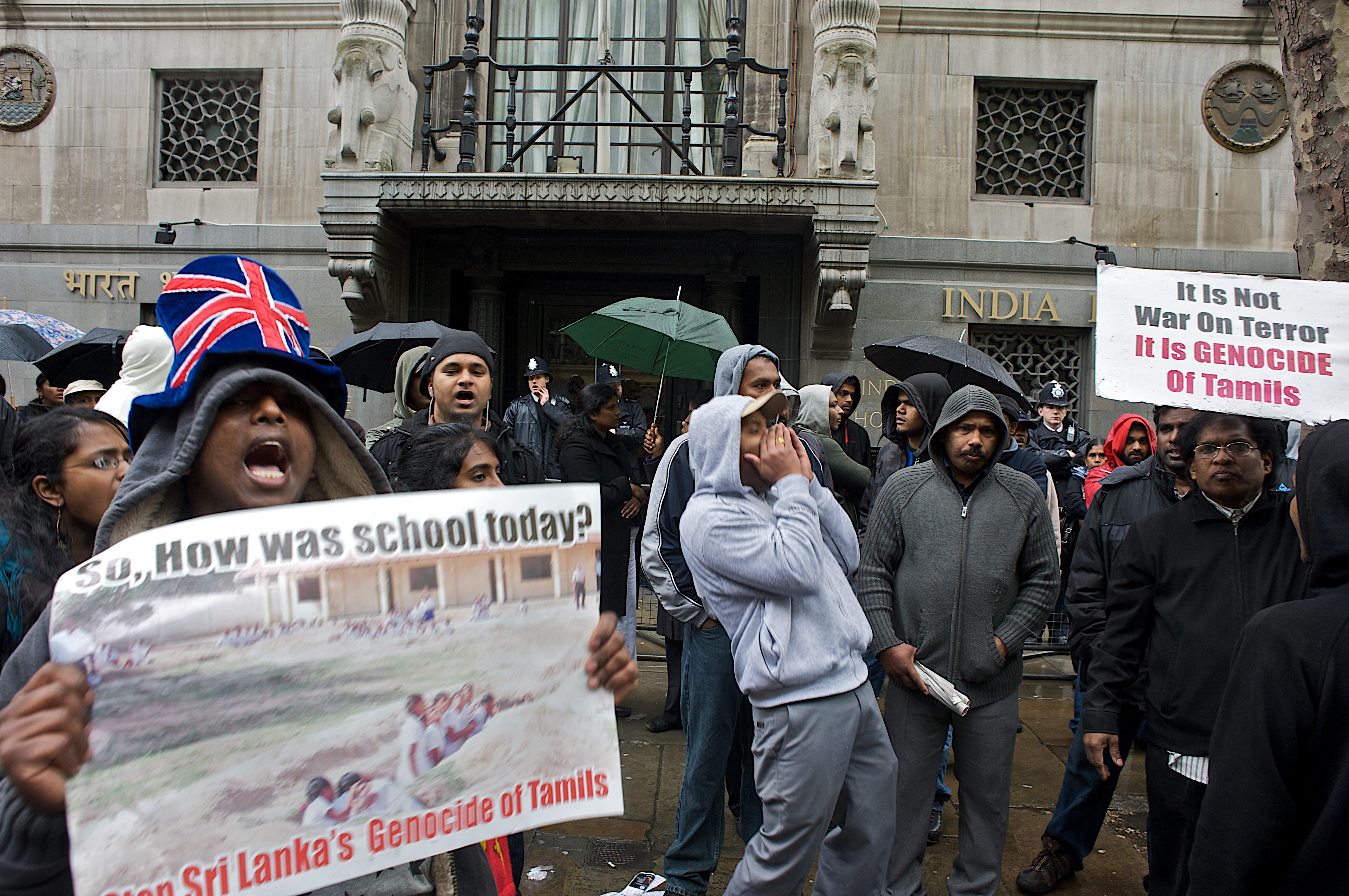 Tamils protesting against the Sri Lankan Civil War outside the Indian High Commison, London